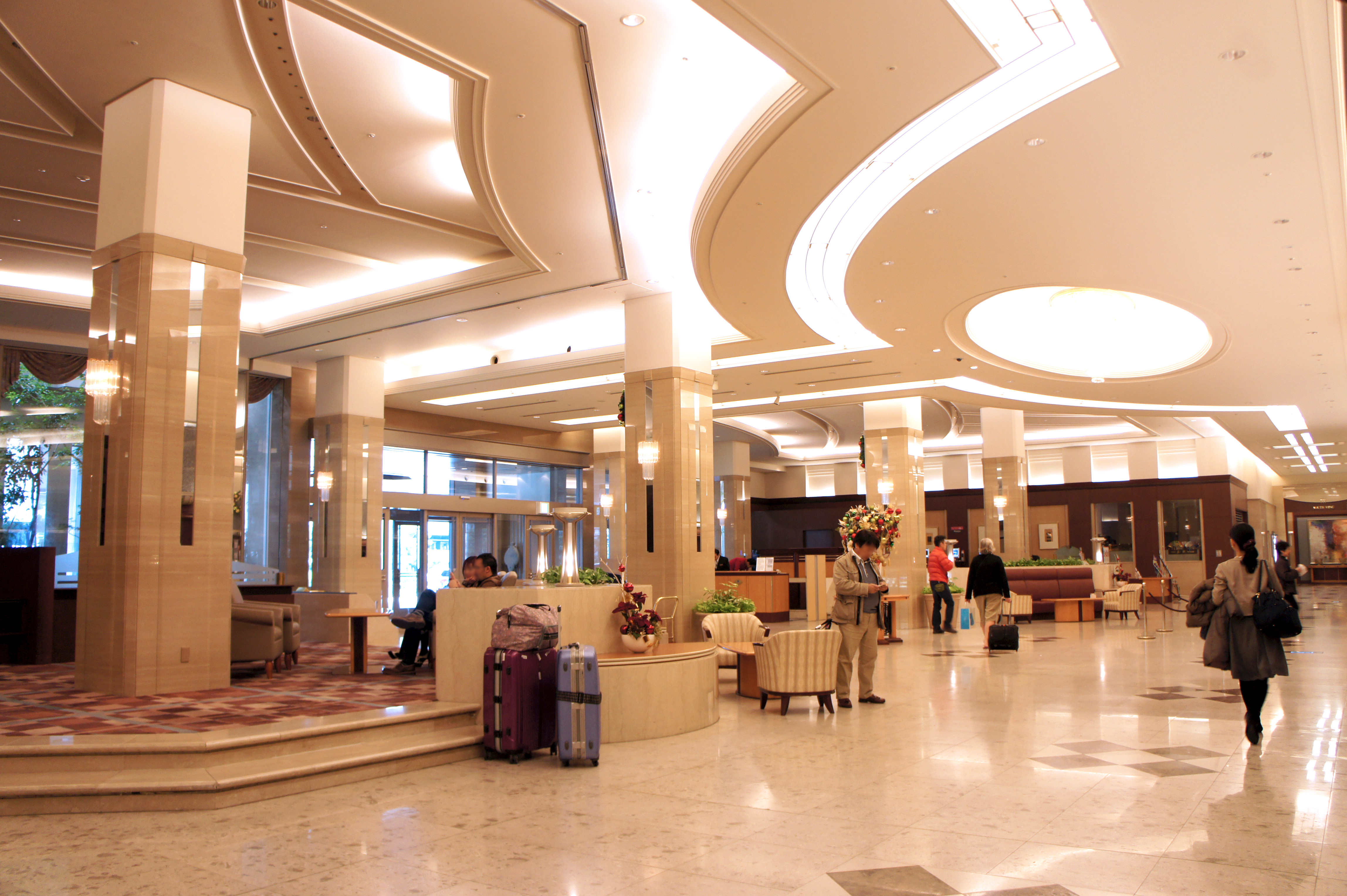 Hotel Nikko Kansai Airport Lobby, 1 Senshukuko-kita Izumisano-City Osaka Japan.(Kansai International Airport)